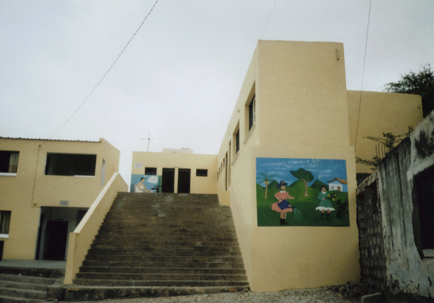 School in Furna, Ilha Brava, Cabo Verde.